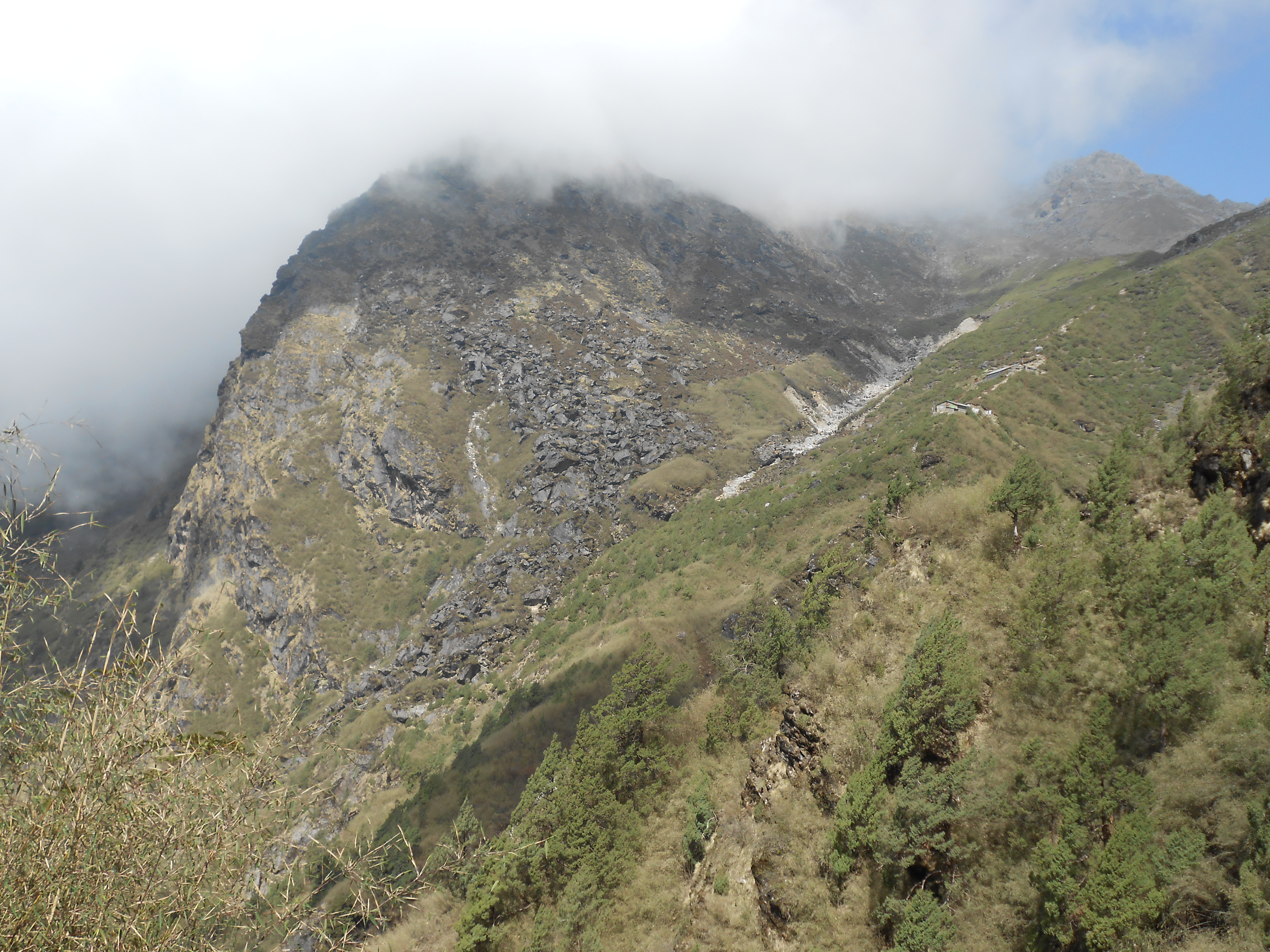 Crash Site of 311, between Ghopte and Tharepati Pass. The impact site is at the base of the white curved & vertical slip, slightly to the left of center of the photograph - between the large rock outcrops.I. Site Lat 28.055290 Lon 85.456382